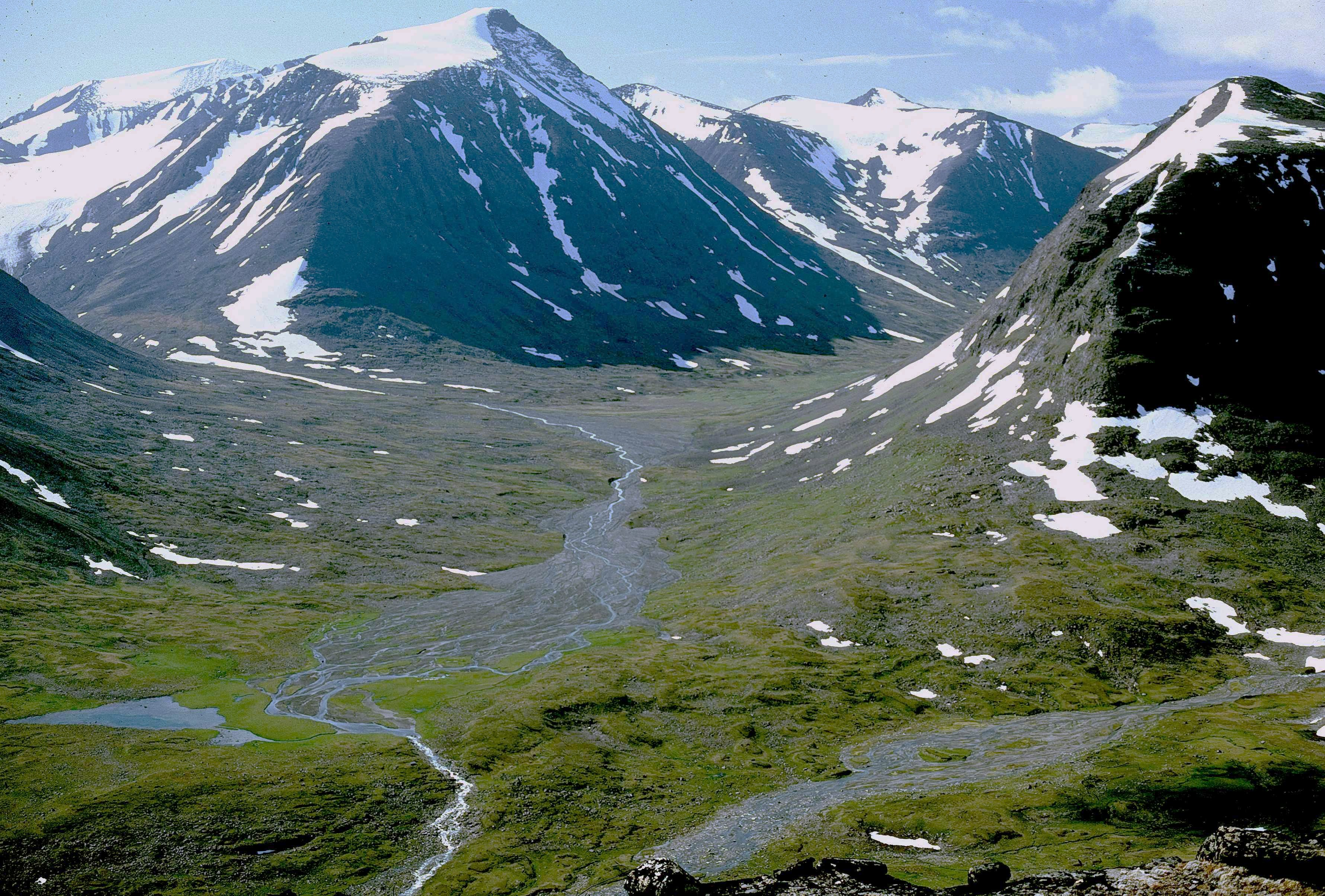 Alkavagge in Sarek National Park